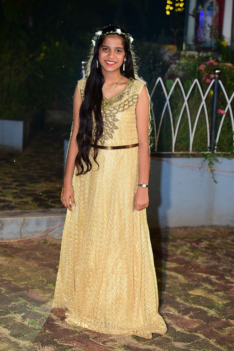 Photo of a Indian girl wearing Indian Gown ಕನ್ನಡ: ಭಾರತೀಯ ಗೌನ್ ಧರಿಸಿದ ಭಾರತೀಯ ನಾರಿ